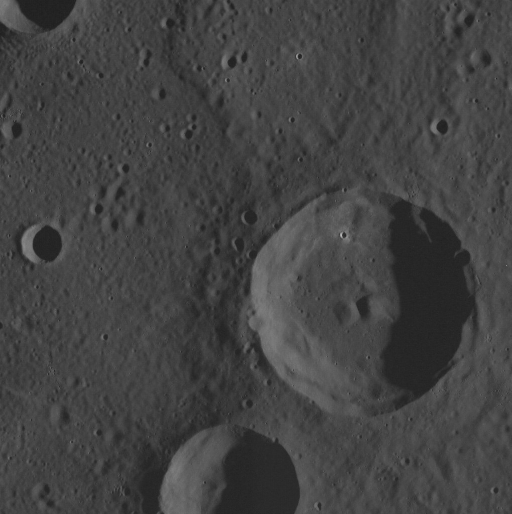 Berlioz crater (lower right) on Mercury. MESSENGER Wide Angle Camera image. Approximate north to the left. Width is about 70.5 km. Emission Angle: 0.2 Incidence Angle: 79.8 Latitude: 79.7 Longitude: 39.8 Phase Angle: 79.8